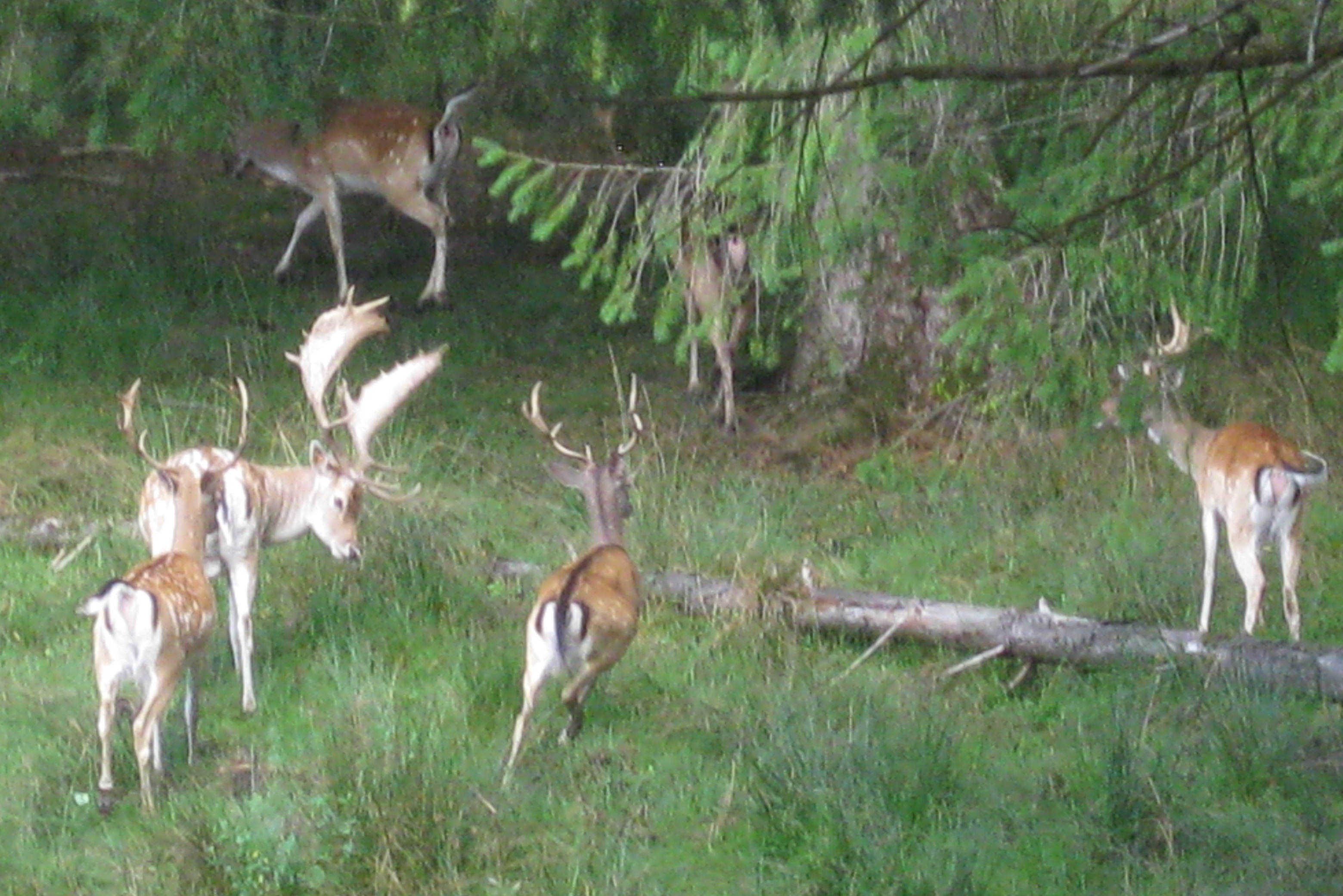 In the nature park (~1,000 acre, created in 1968) of the old priory, now castle, of Boutissaint, near Treigny in Puisaye, south of Yonne departement, Bourgogne, France. A group of fallow deers is just coming out of the small pond close to the Sainte-Langueur chapel and fed by the"Saint-Langueur fountain", a spring on the south side of the castle, about 130 m away from the castle's main building.